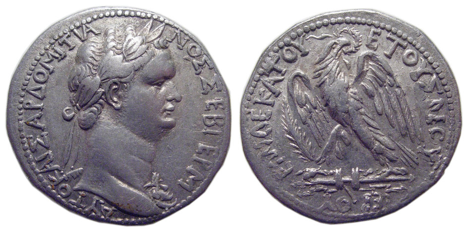 Ruler/Emperor: Domitian City/Region: Antioch Denomination: AR Tetradrachm Composition: Silver Date: 91-92 AD Obverse: Laureate bust of Emperor Domitian facing right, Classical Medusa at the nick of Domitians neck. Legend reads: AYTO KAISAP DOMITIA NOS SEB GEPM Reverse: Eagle standing on a thunderbolt, palm before, wings open, head facing right, holding wreath in its beak. Legend reads: ETOYS NEOY GEPOY ENDEKATOY Size: 27mm, 14.8g Grade: Choice EF; Reference: Prieur p. 22, no. 147